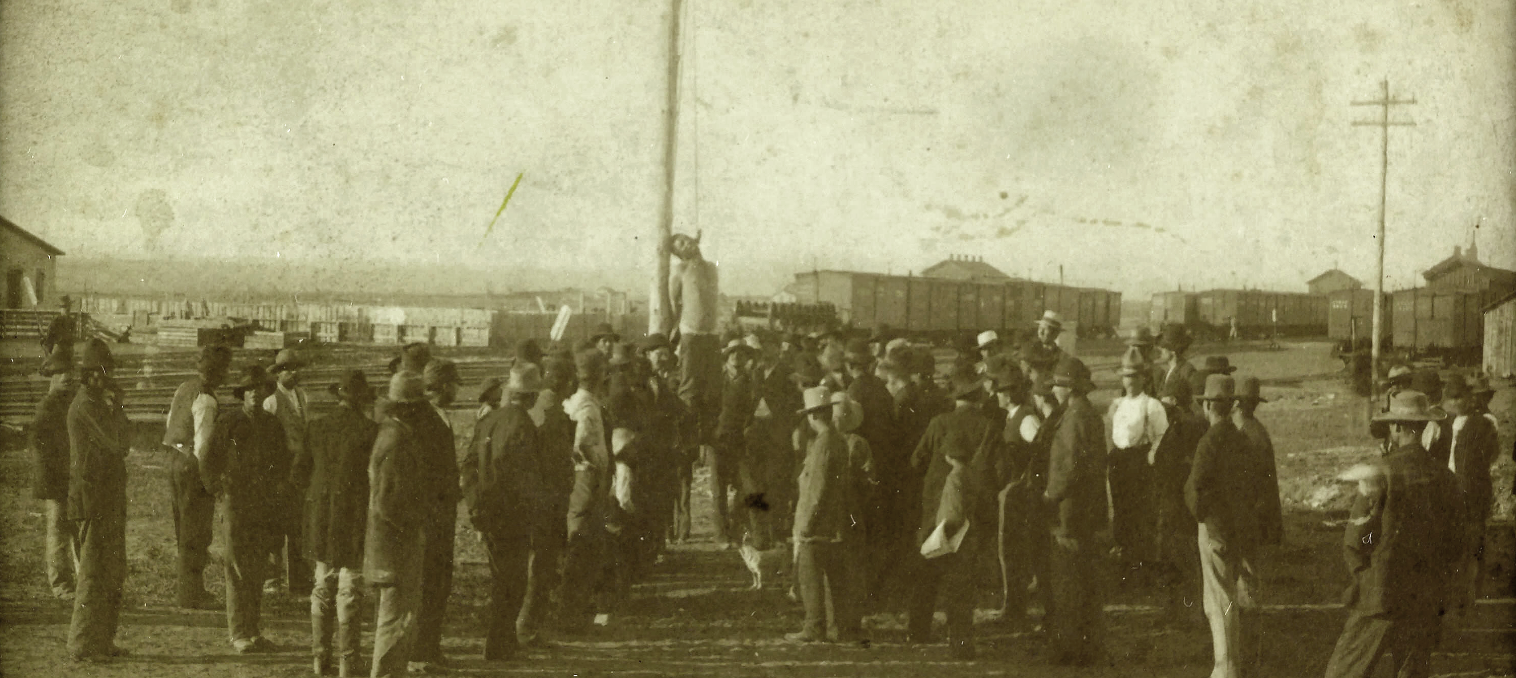 Cabinet Card Death Photograph of Navajo Frank Lynching